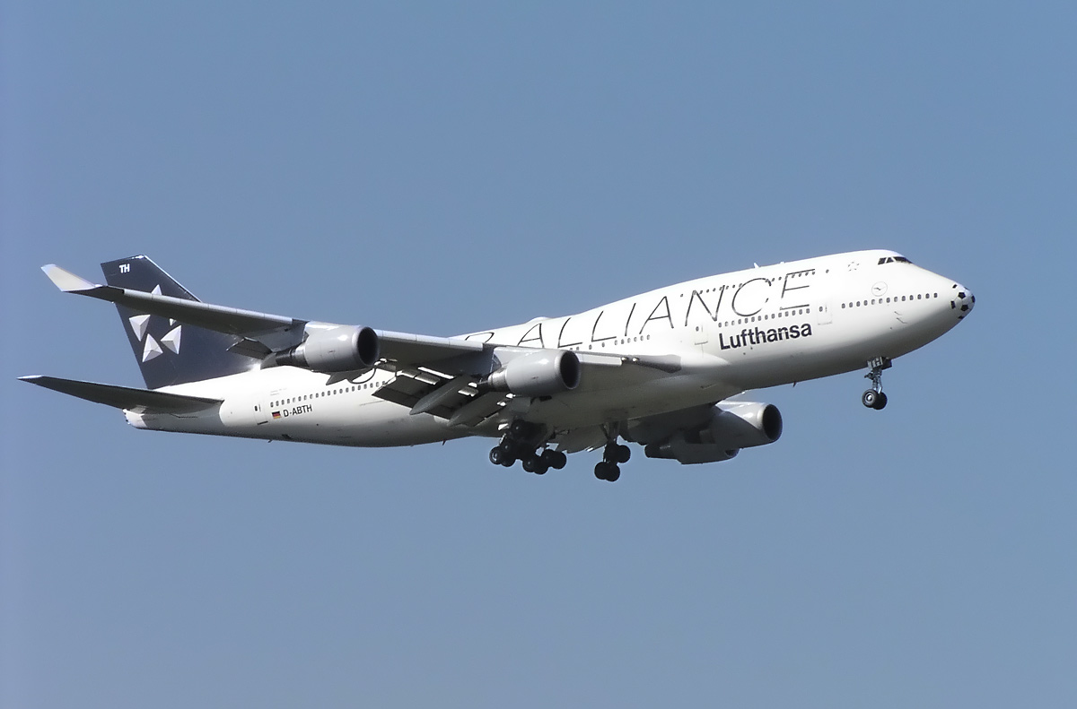 Lufthansa Boeing 747-400 (D-ABTH, "Duisburg" Star Alliance colours) in Frankfurt (EDDF)